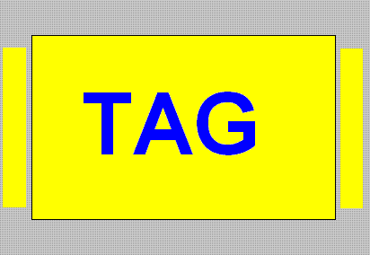 Smart TAG signs on road (road sign in Malaysia)